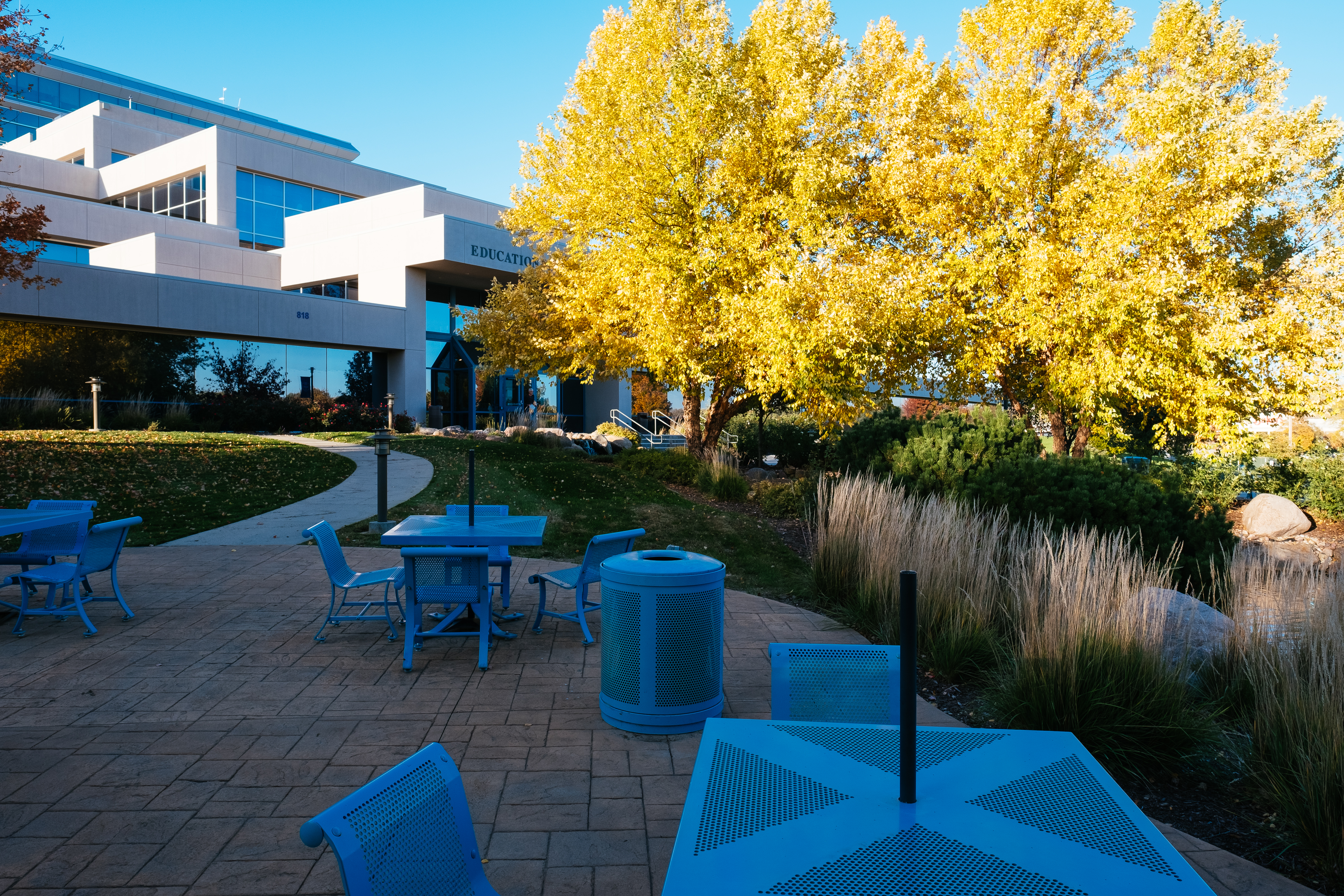 Educational Services Building Courtyard